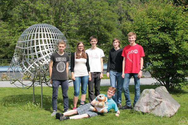 The German team for the IMO 2016, photo from the final team selection seminar at the Mathematical Research Institute of Oberwolfach